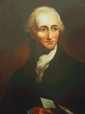 George Read, Sr., of Delaware (1733-1798)